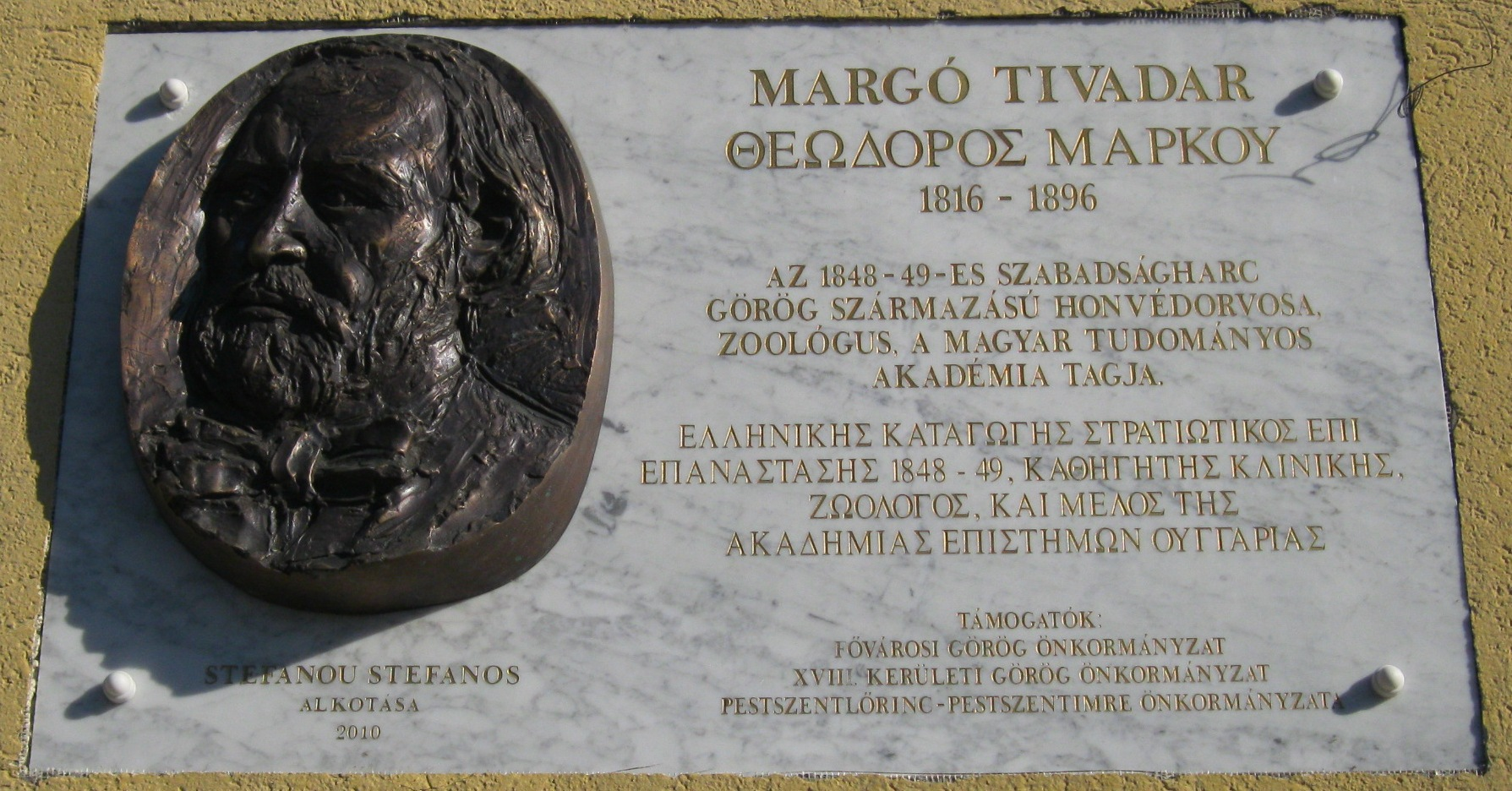 Commemorative plaque of Tivadar Margó